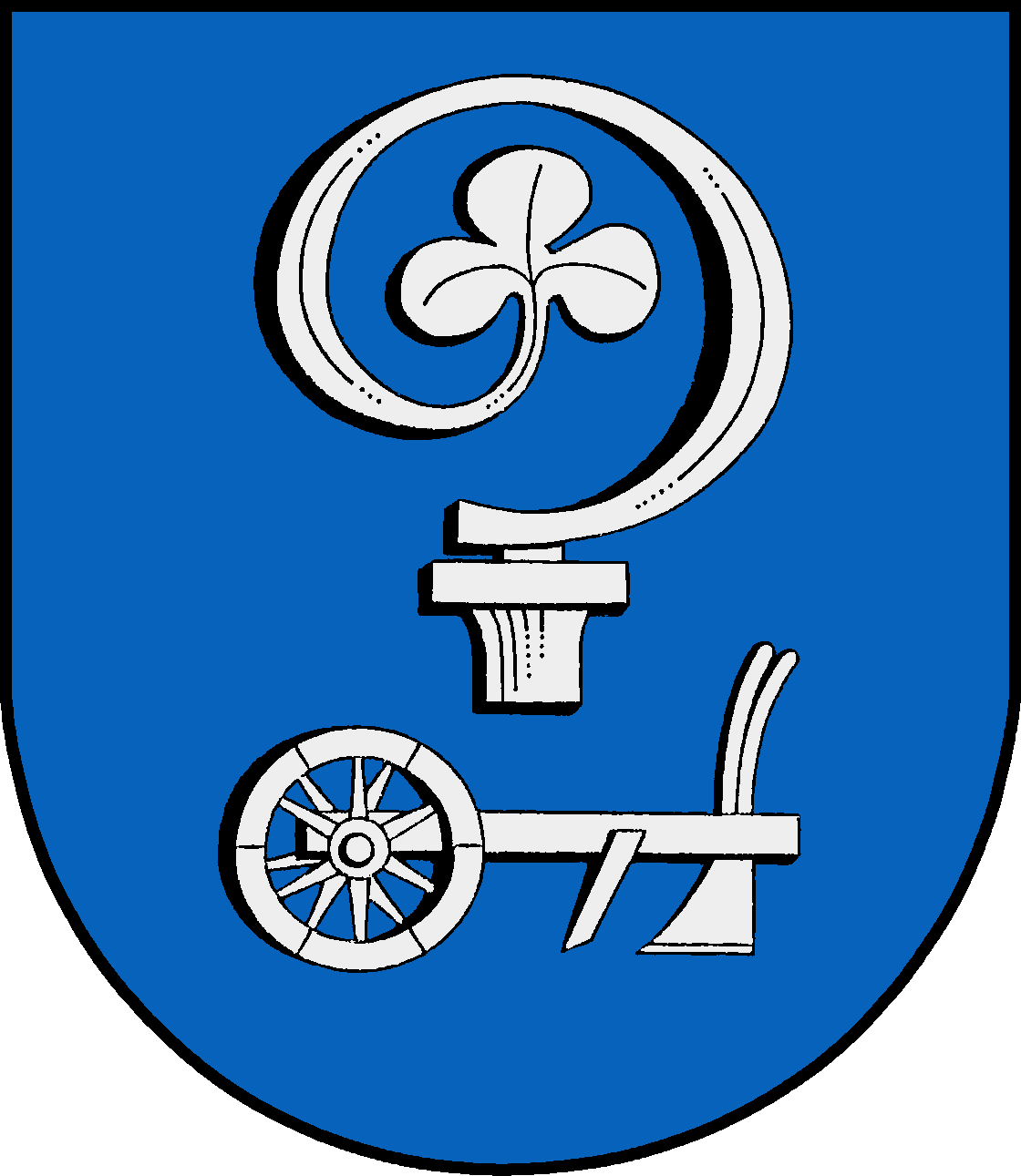 Coat of arms of the municipality Fuhlendorf in Schleswig-Holstein, Germany.